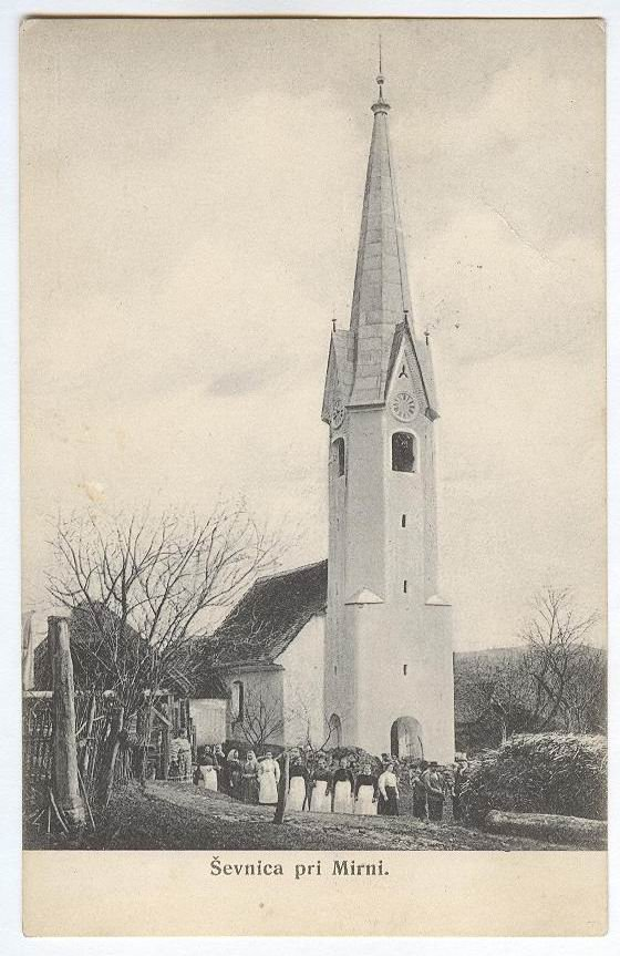 Postcard of Ševnica, Slovenia.